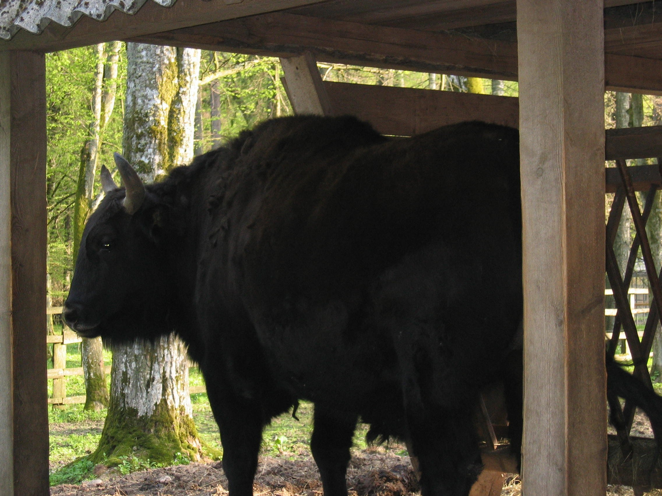 Żubroń, a hybrid between wisent (Bison bonasus) and cattle.